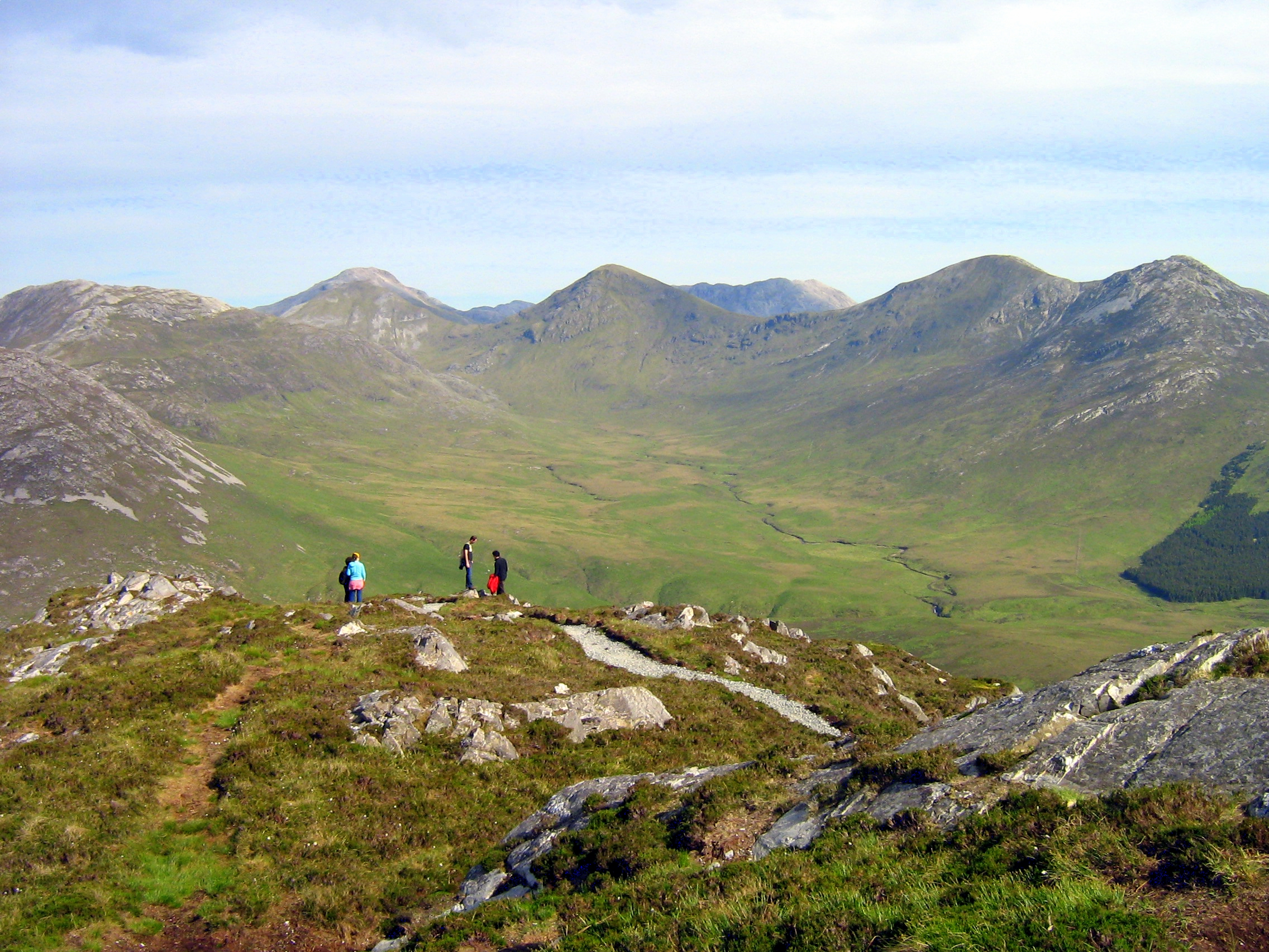 Twelve Bens in Connemara Ireland